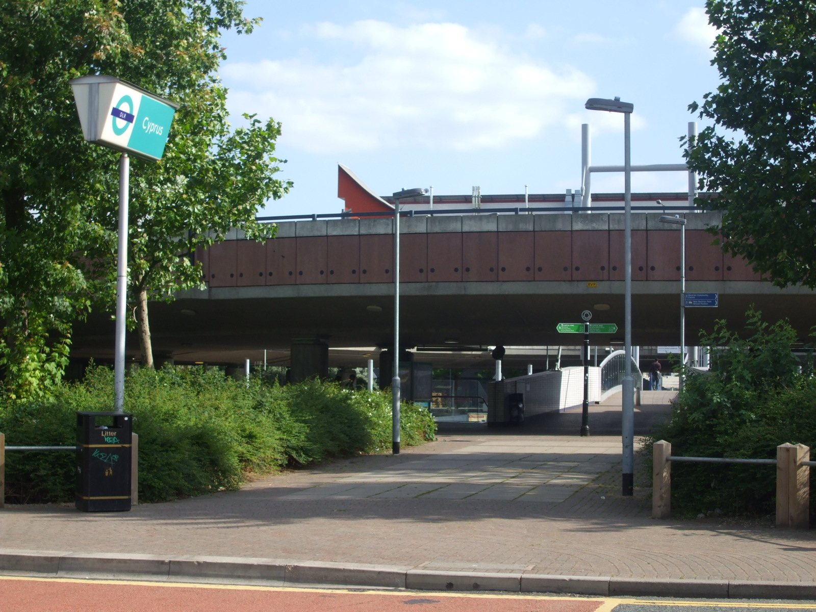 Cyprus DLR station northern entrance